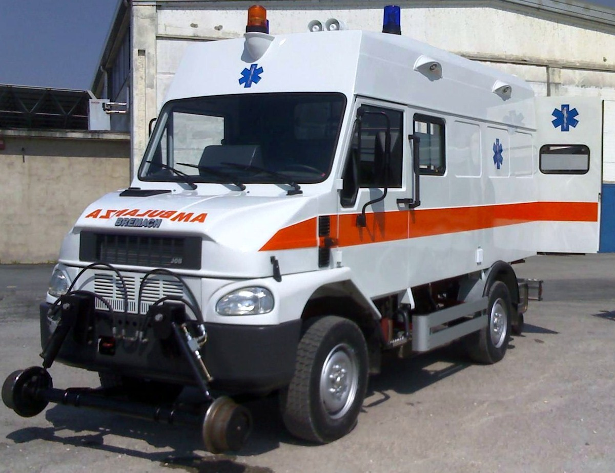 Bremach ambulance with special wheels. "AMBULANZA" is in mirror writing ("AZNALUBMA")